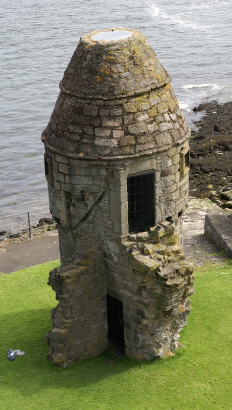 Newark Castle, Port Glasgow, Scotland - pigeon tower